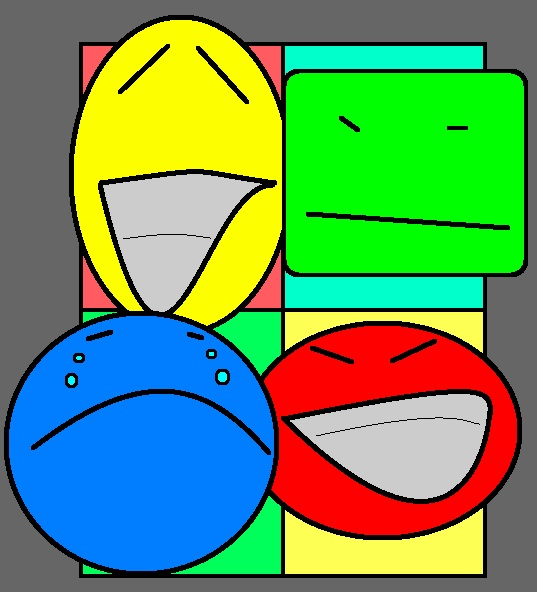 4 Moods of Humanity